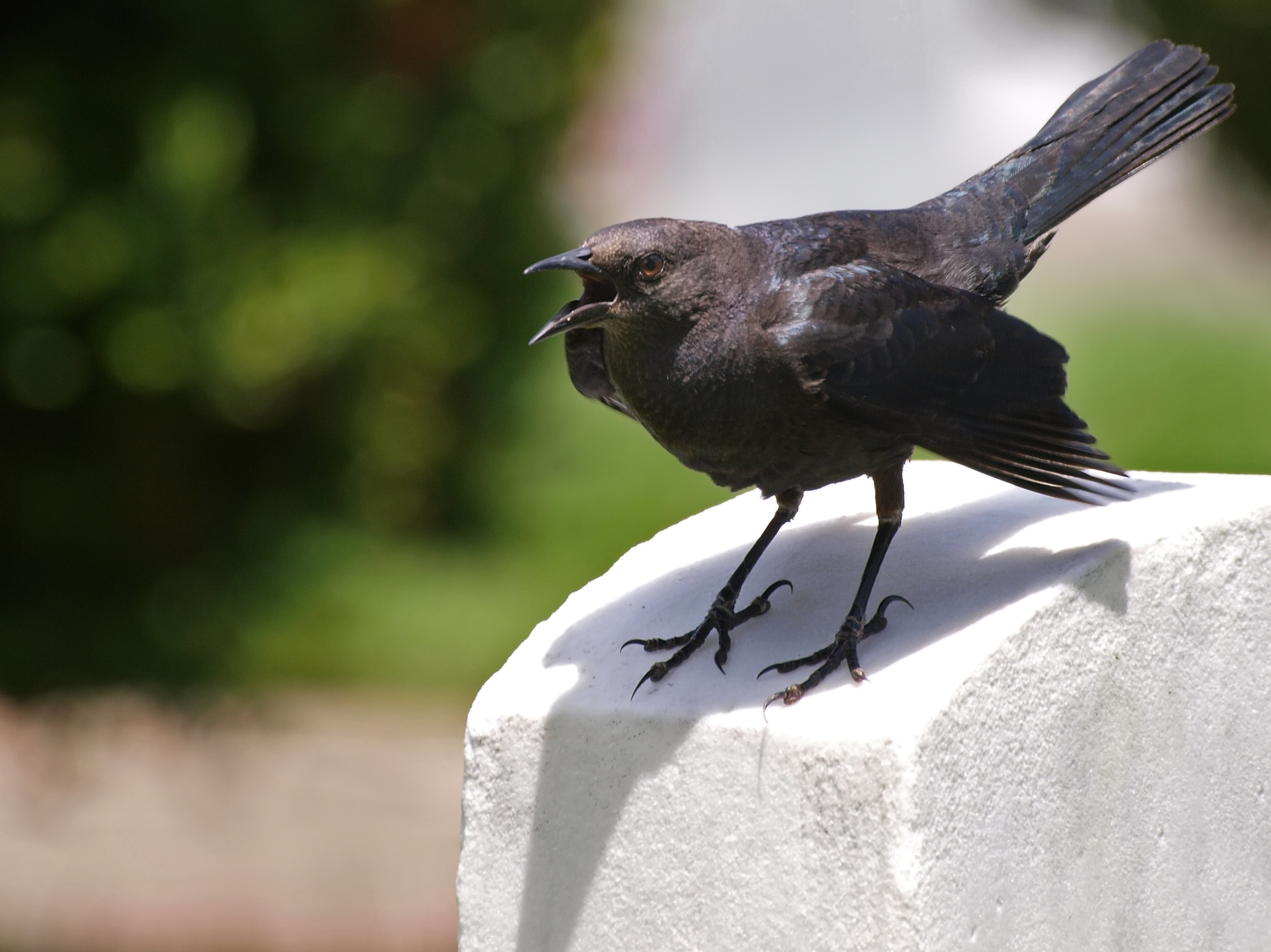 A female Brewer's Blackbird protects her fledglings and nestlings.